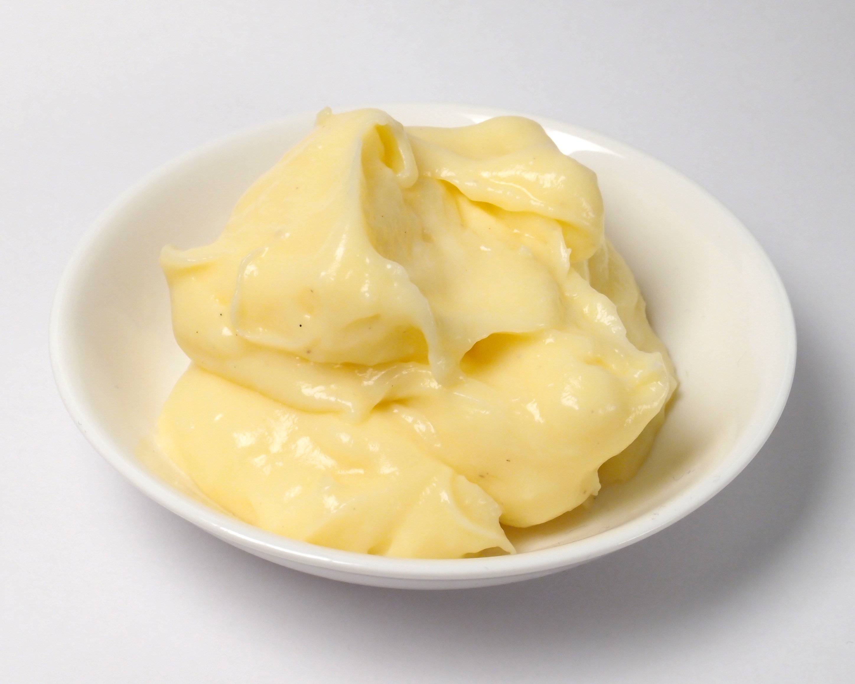 A sample of pastry cream, a starch-bound cream made from milk, egg yolks, sugar, starch and vanilla. This type of cream is used in baking and for desserts. It is also known under its French name, crème pâtissière.